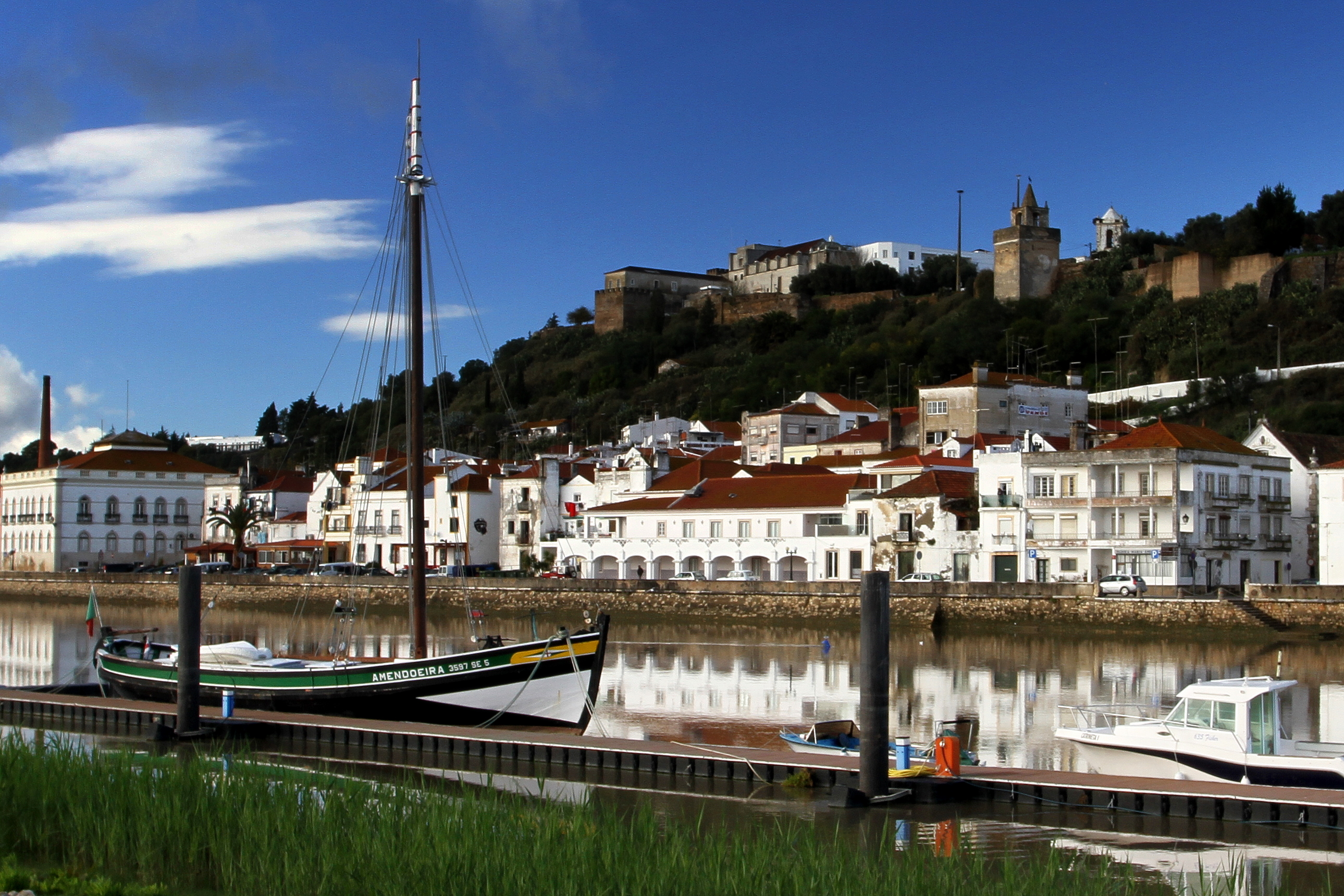 Castle of Alcácer do Sal This file was uploaded for Wiki Loves Monuments in Portugal with the unique identifier 70159. This monument is classified as Monumento Nacional. This building is classified as Monumento Nacional.